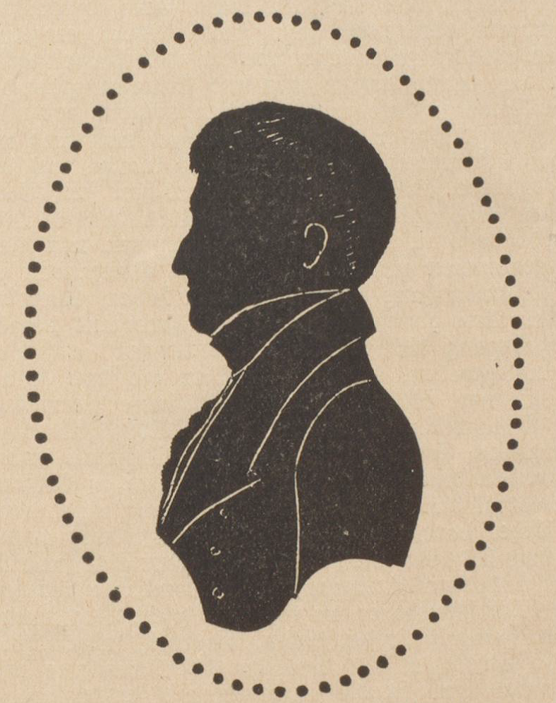 Adolf Johann Otto von Wickede